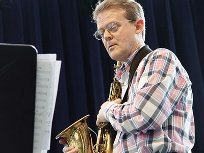 Ove Ingimarsson in Aarhus